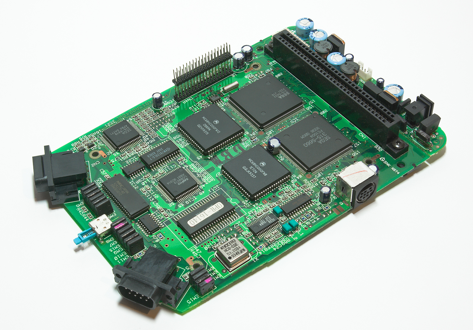 Sega Multi Mega game console mainboard (1994) Details: 0 sec. ISO: 100 Photographer: Bill Bertram